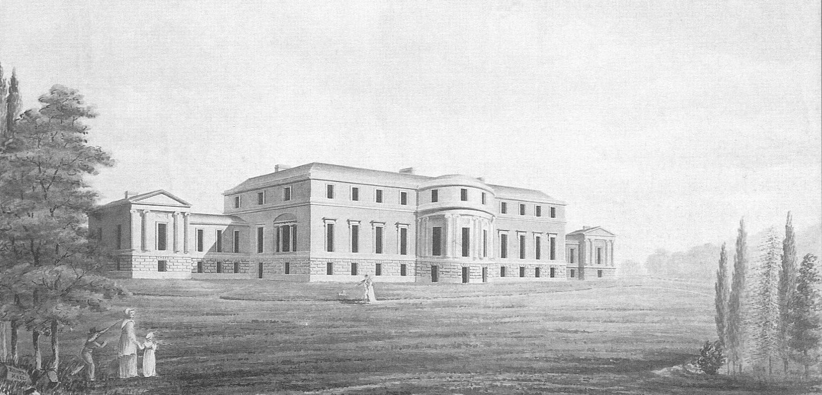 Drawing made by the architect, Thomas Harrison in 1799. Scanned and enhanced by myself.